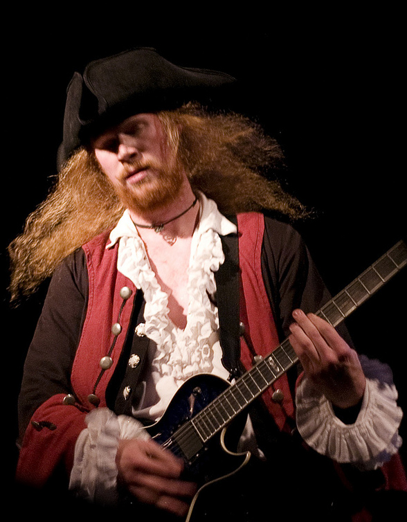 Commodore Redrum performing guitar at Paganfest America on May 14, 2009.